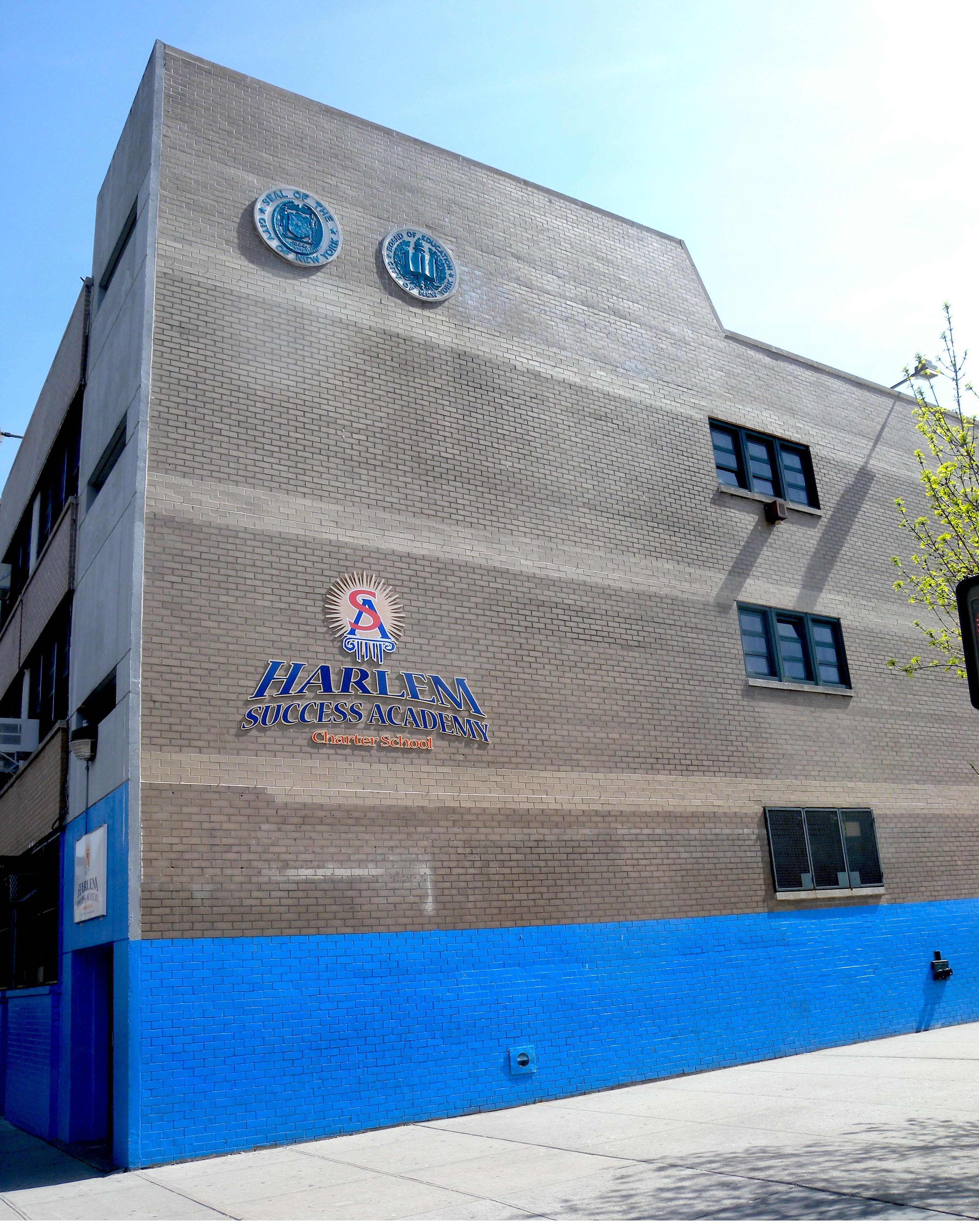 Looking southeast at Success Academy Harlem 1 from Lenox Avenue and 118th Street on a sunny afternoon. (The logo on the building was in use at the time, but is no longer the logo for the school or the organization operating it.)